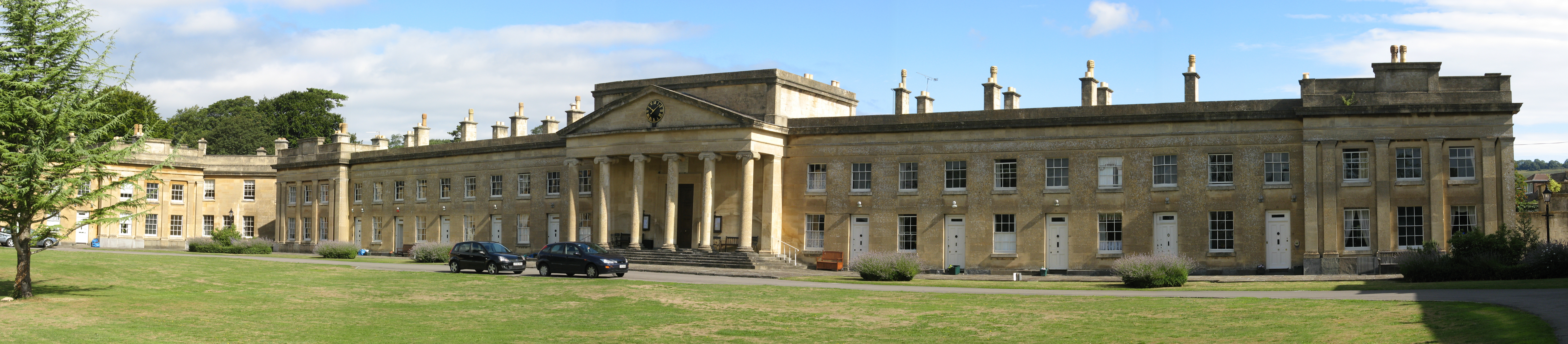 Panorama from quadrangle of central section of Partis College, Newbridge, Bath.